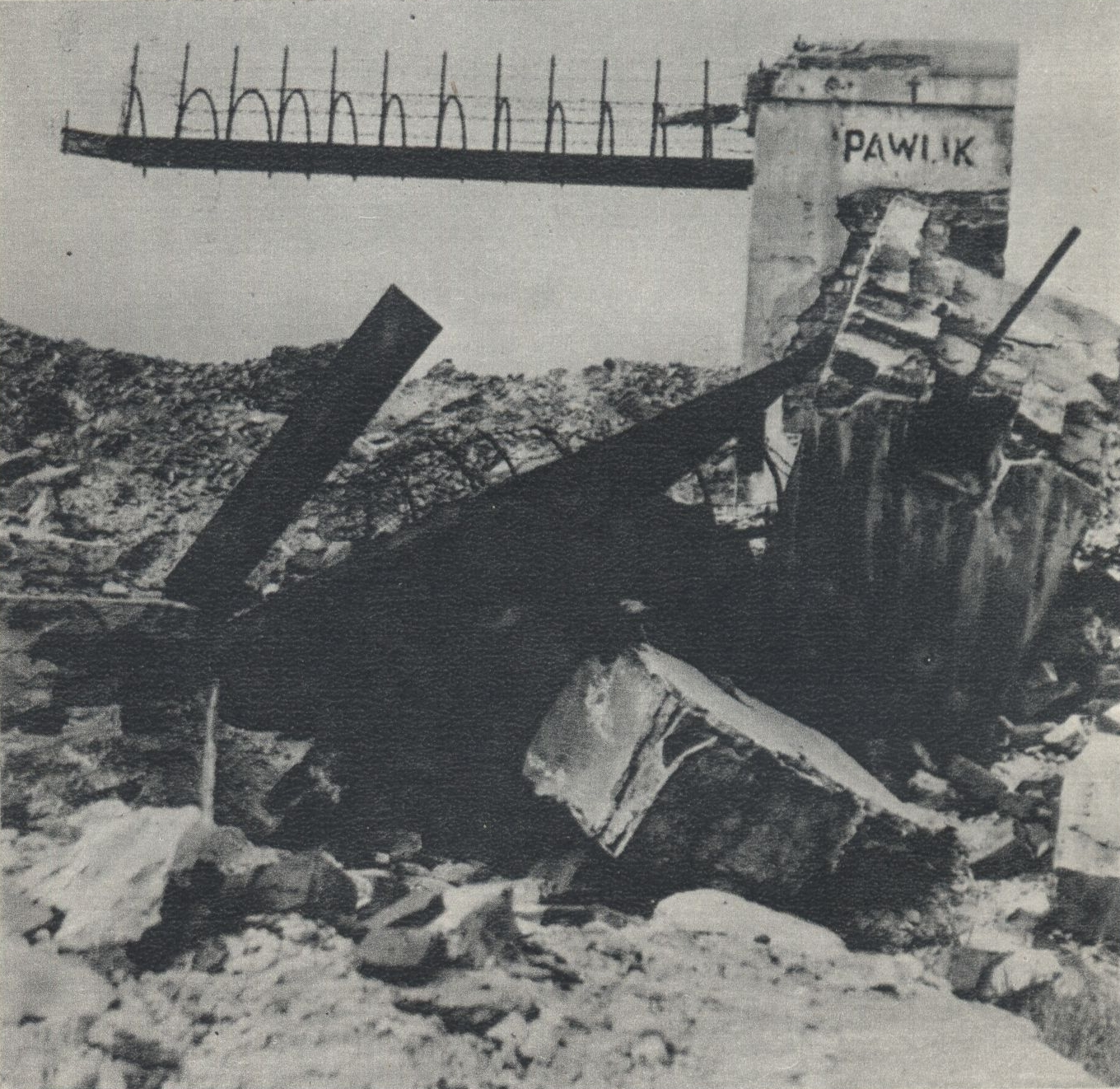 Ruins of Pawiak prison in Warsaw, blew up by Nazi-German occupants in August 1944. This picture shows prison’s gateway.